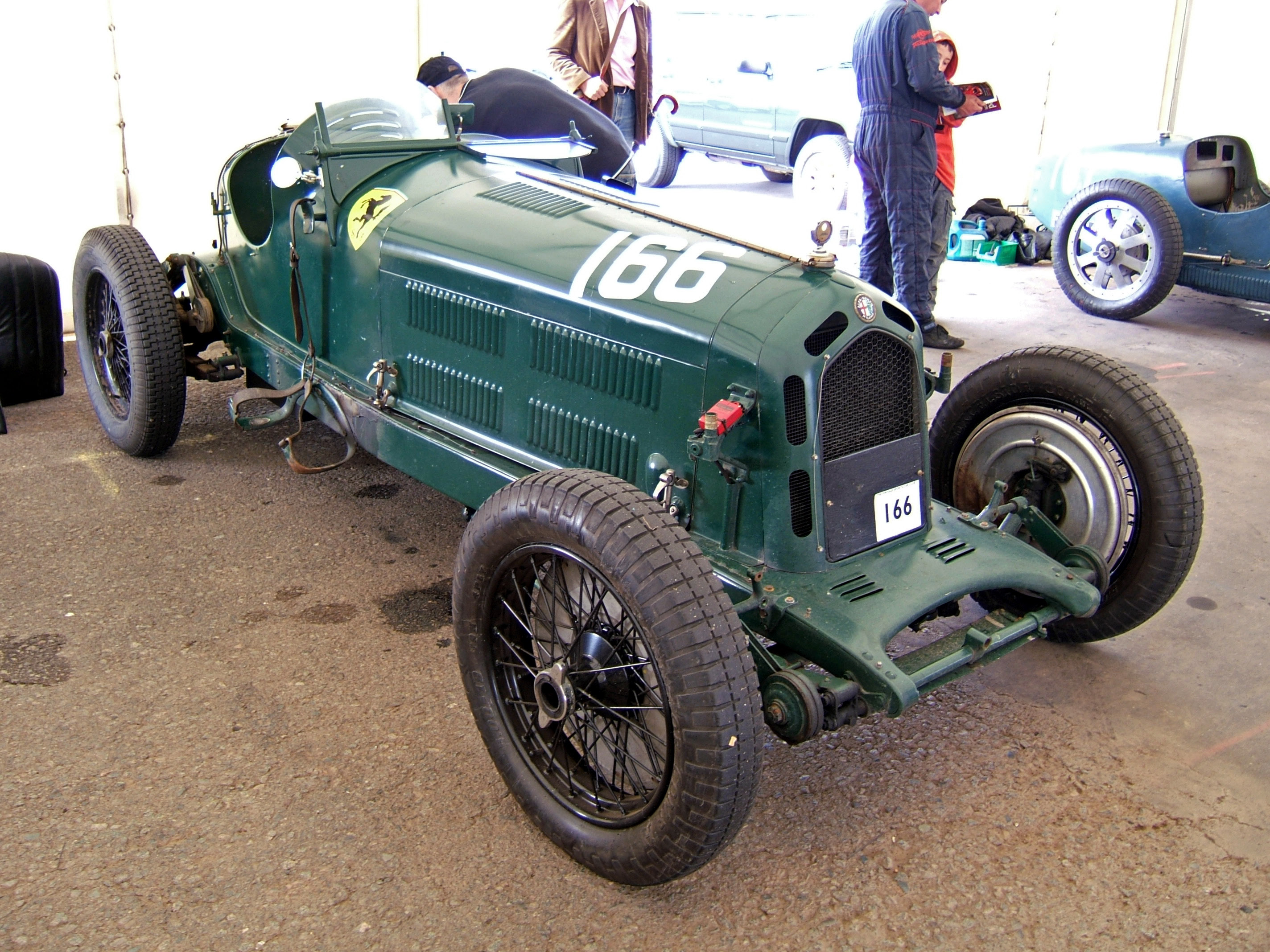 An unusual sight indeed, an ex-Scuderia Ferrari Alfa Romeo 8C 2600 Monza in green! In the paddock at the VSCC SeeRed race meeting, Donington Park, September 2007.